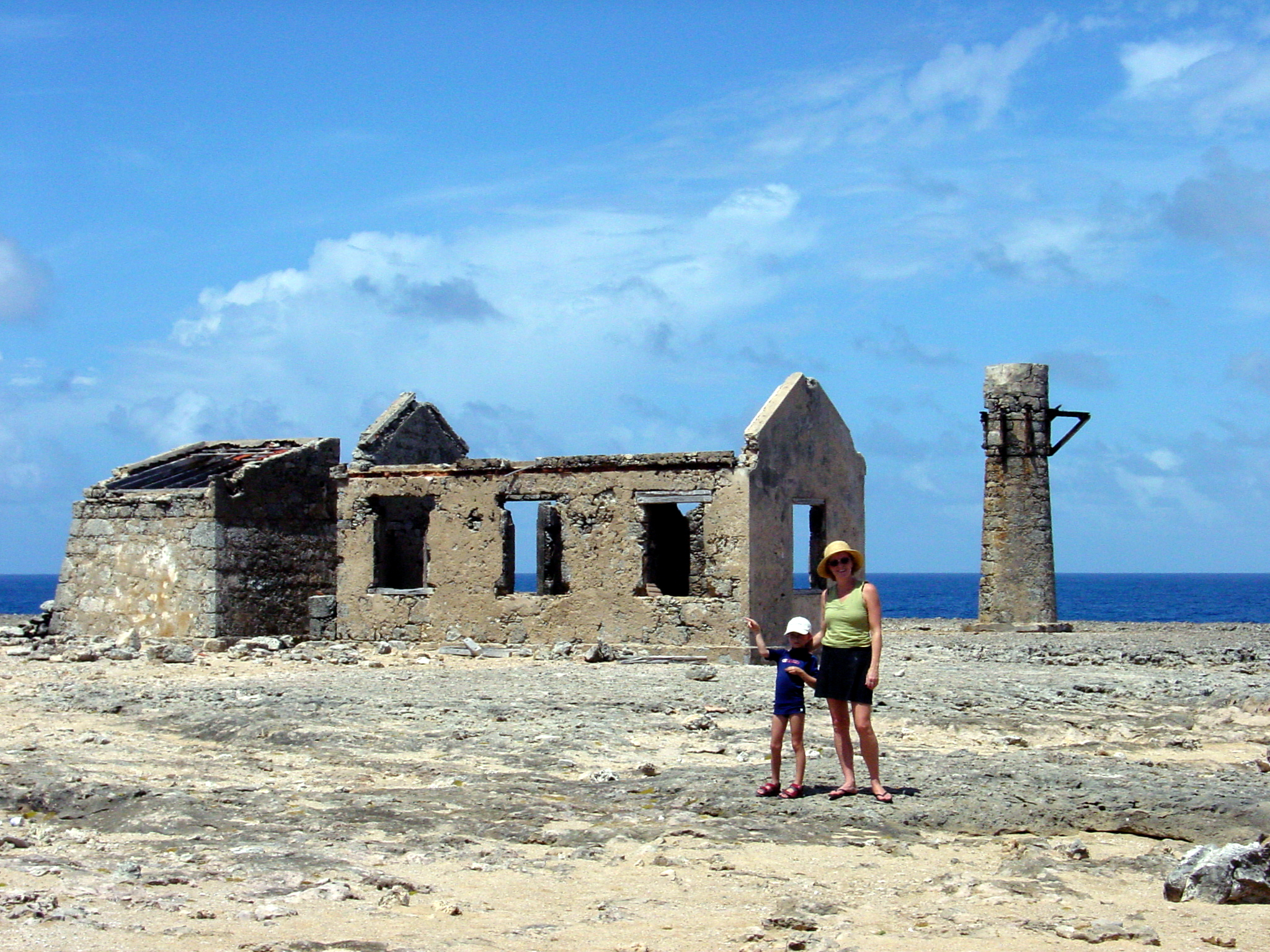 The Old Malmok lighthouse